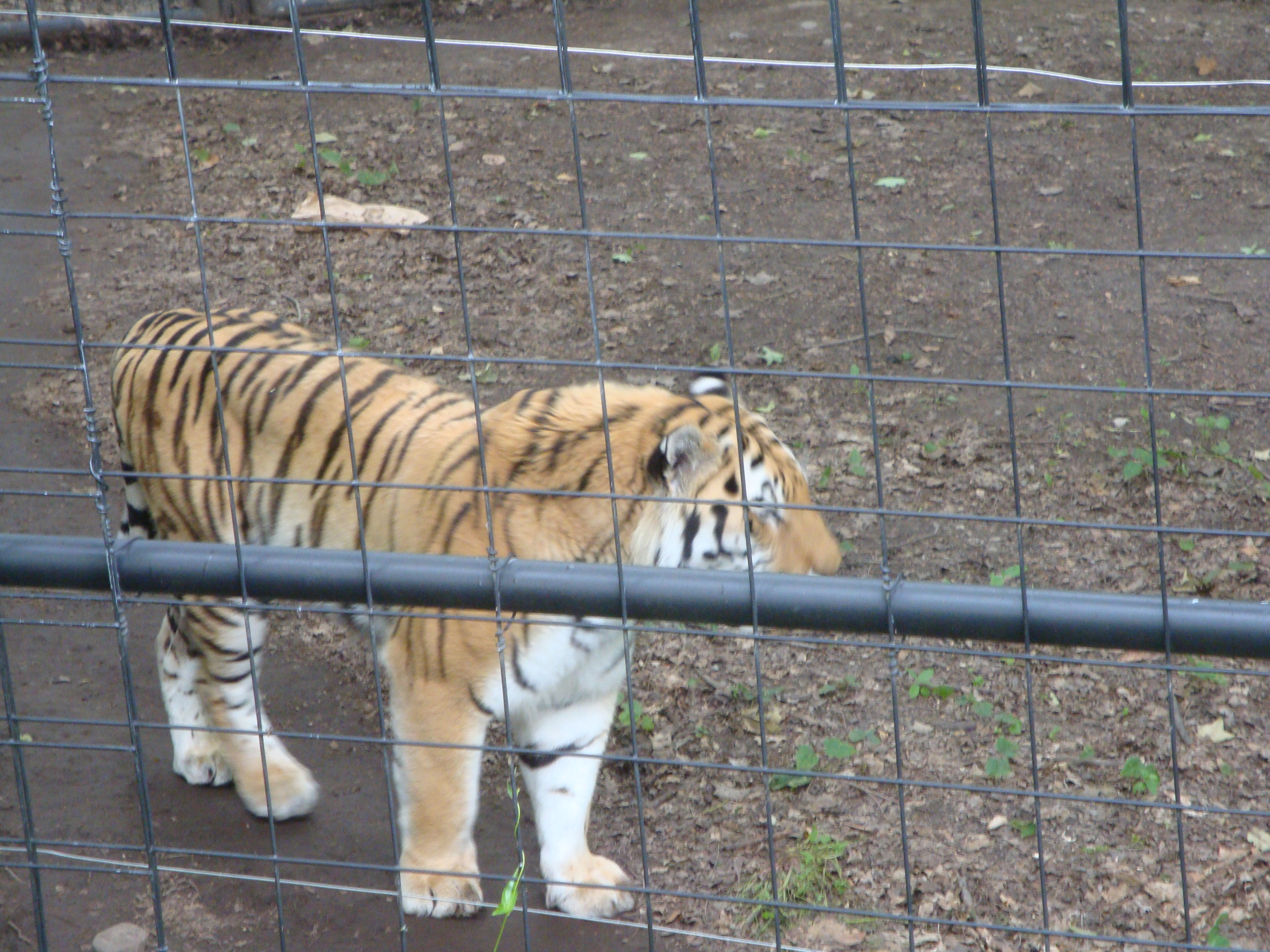 A tiger in a zoo enclosure